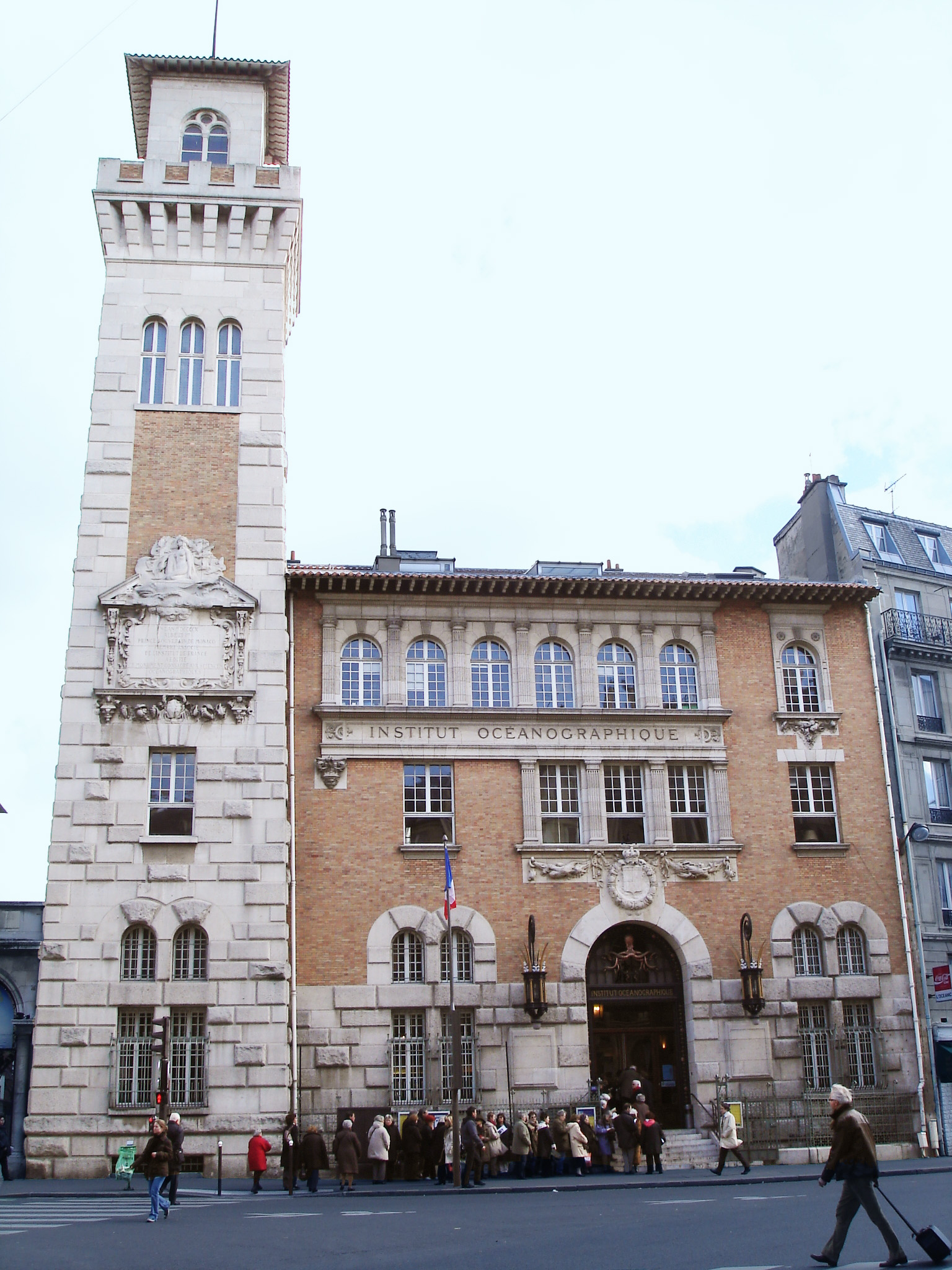 Institut océanographique de Paris, rue Saint-Jacques. The building was erected in 1910, funded by Prince Albert 1st of Monaco